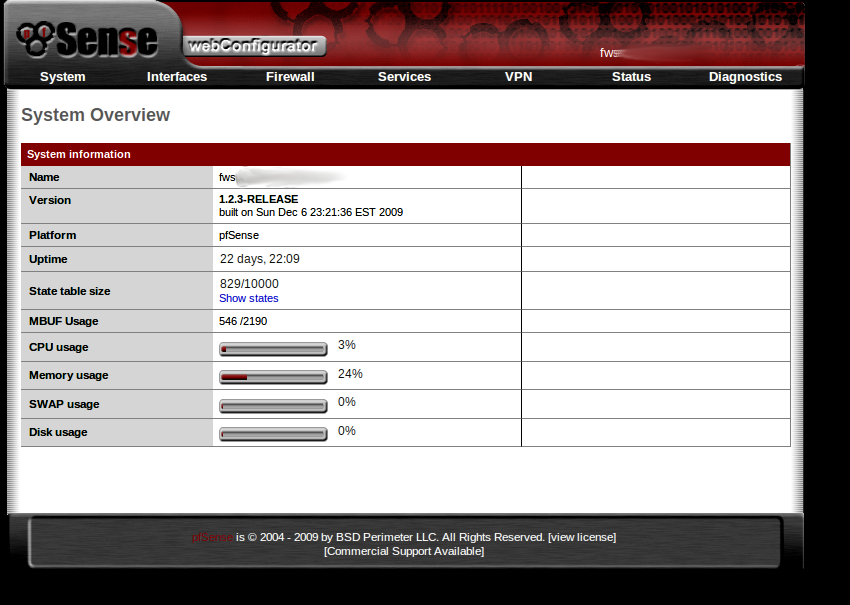 This his the main Windows of PfSense 1.2.3